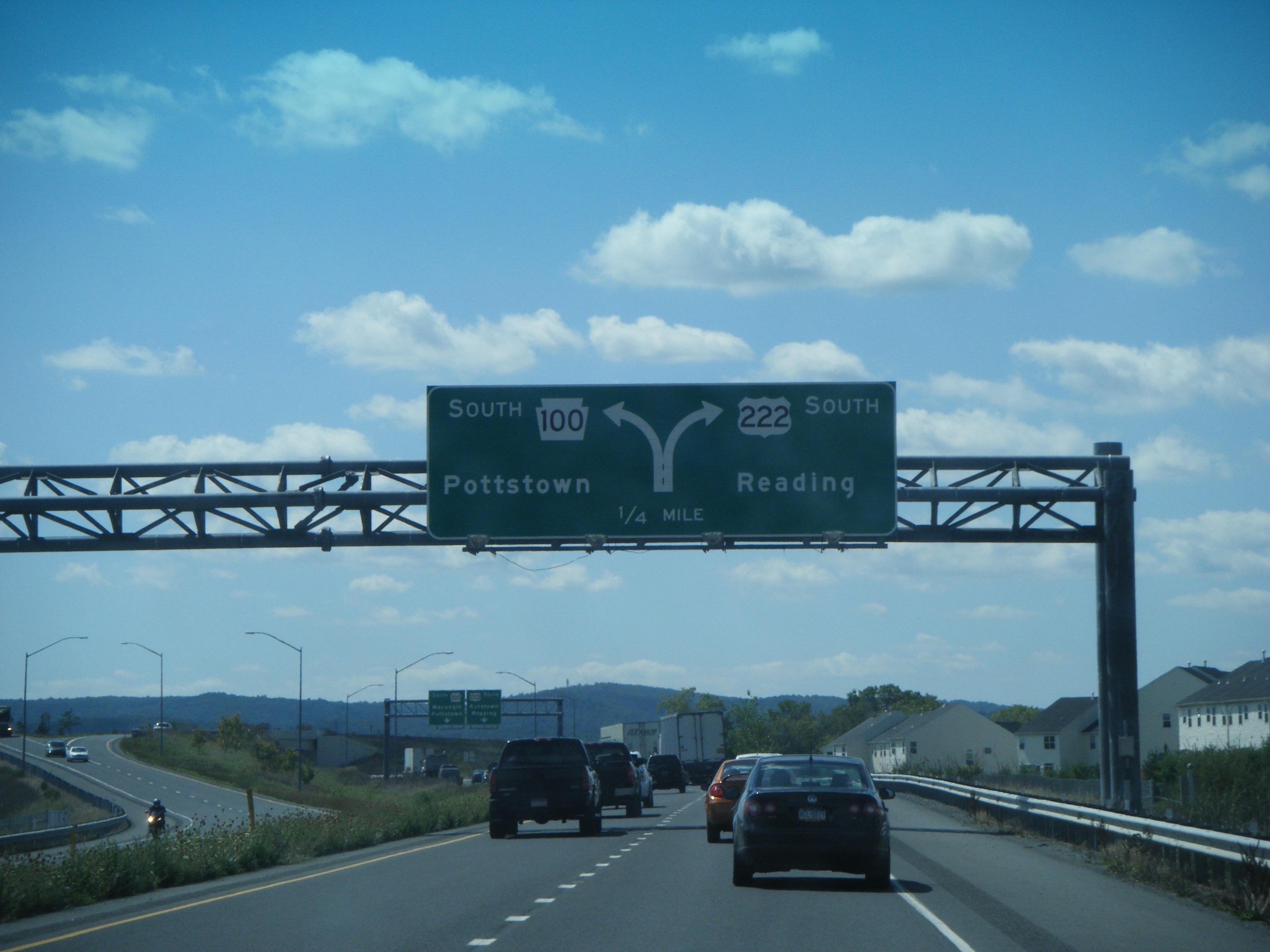 Southbound U.S. Route 222/Pennsylvania Route 100 at split in Upper Macungie Township, Pennsylvania